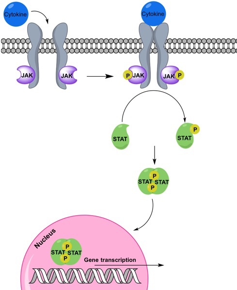 When a cytokine binds to a receptor connected to a JAK, receptor subunits dimerize. This brings JAKs connected to each subunit close together, activating a series of phosphorylations by the kinases which activate intracellular signals, in the end leading to phosphorylation of STATs. Activated STATs dimerize and migrate into the nucleus, where they bind to DNA and affect gene transcription.